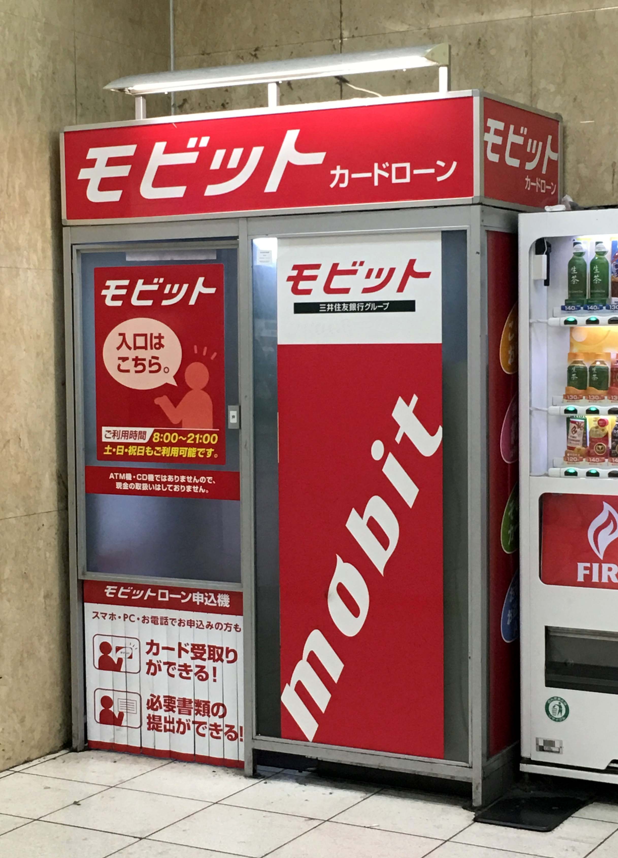 Mobit (Japanese consumer finance) unmanned contract machine (Tokyo, Japan)